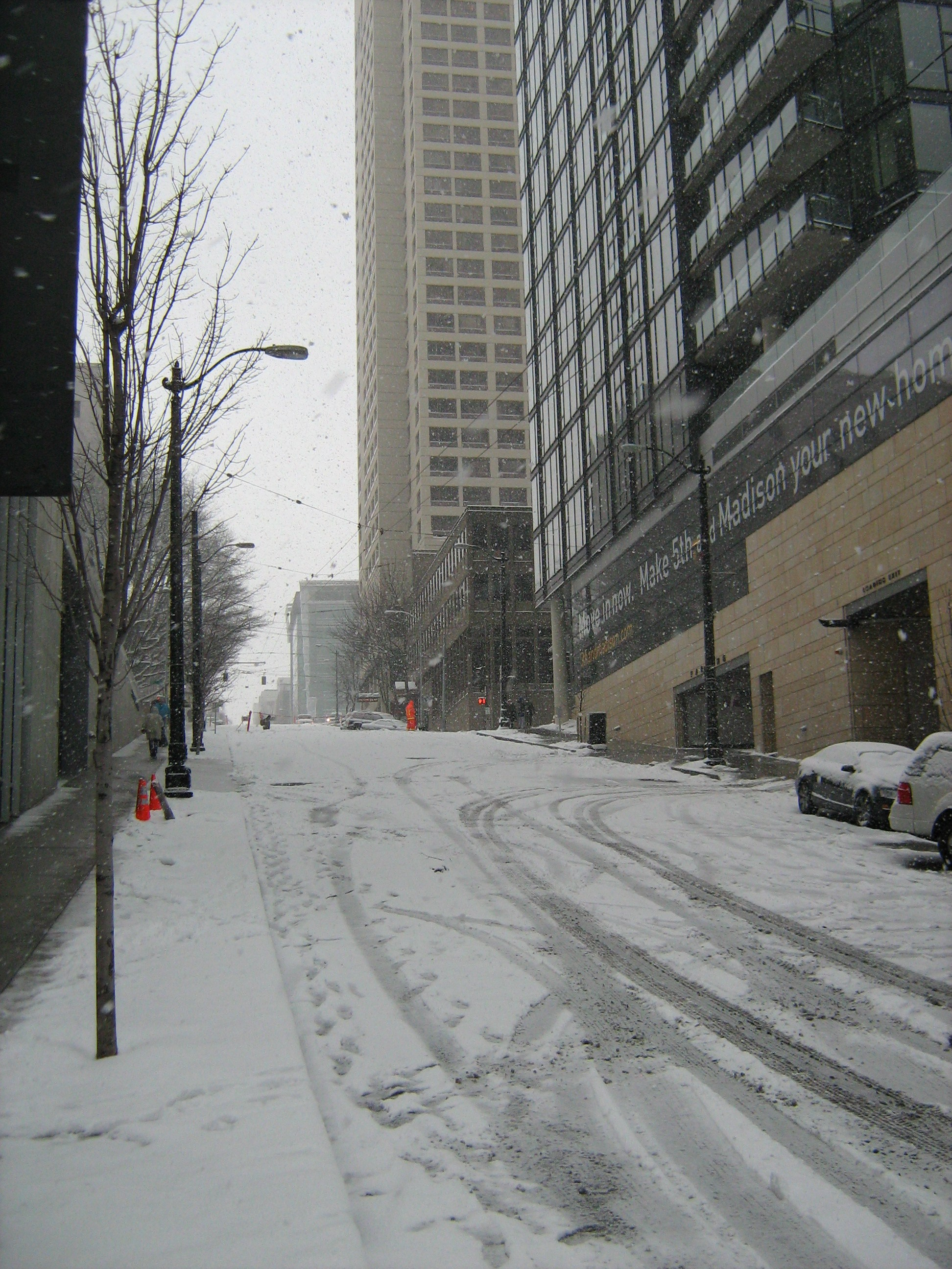 Snowy street in downtown Seattle during the 2008 snowstorm